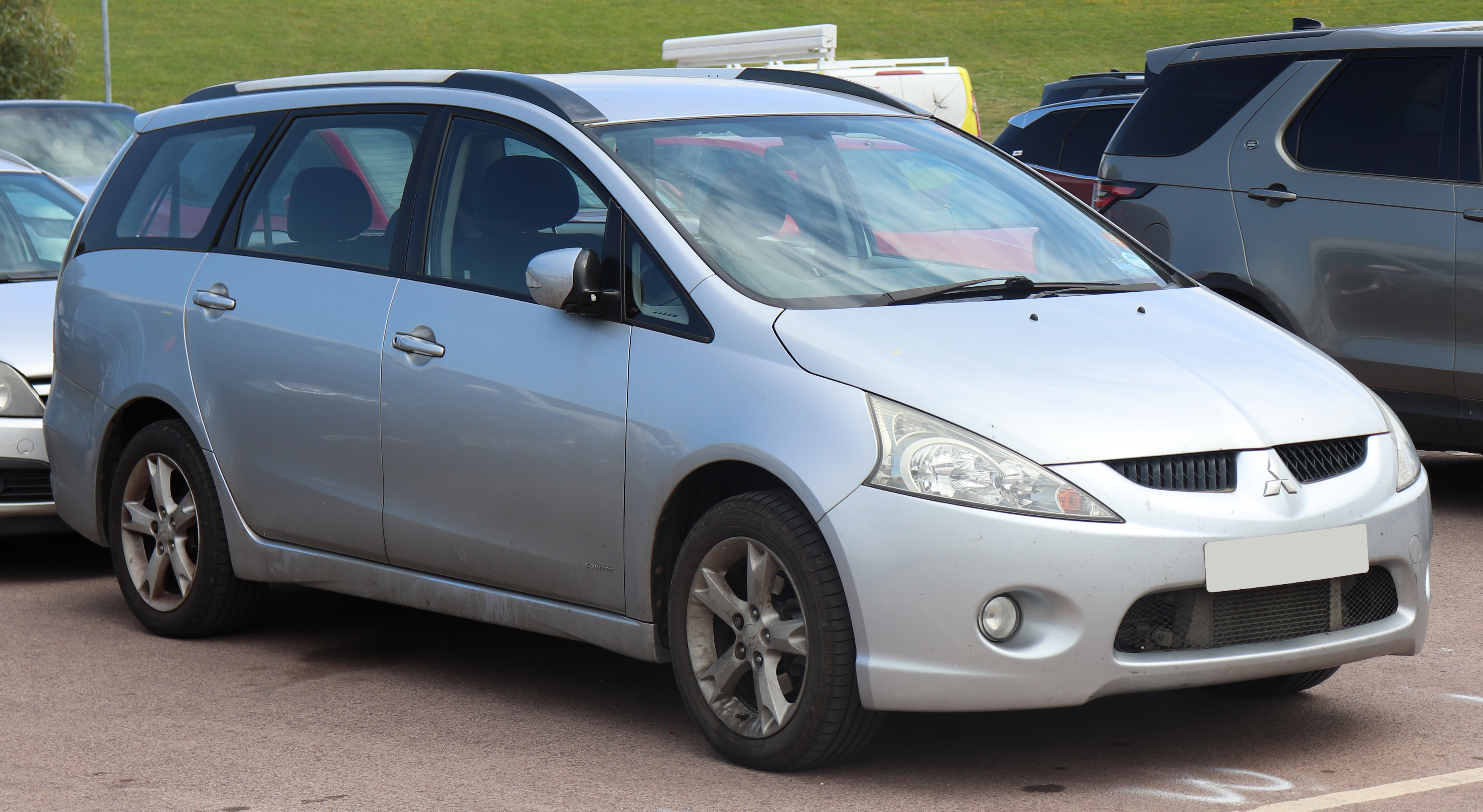 2009 Mitsubishi Grandis Equippe Di-D 2.0 Taken at the British Motor Museum, Gaydon